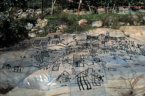 View of the Bedolina 1 rock and its tracing